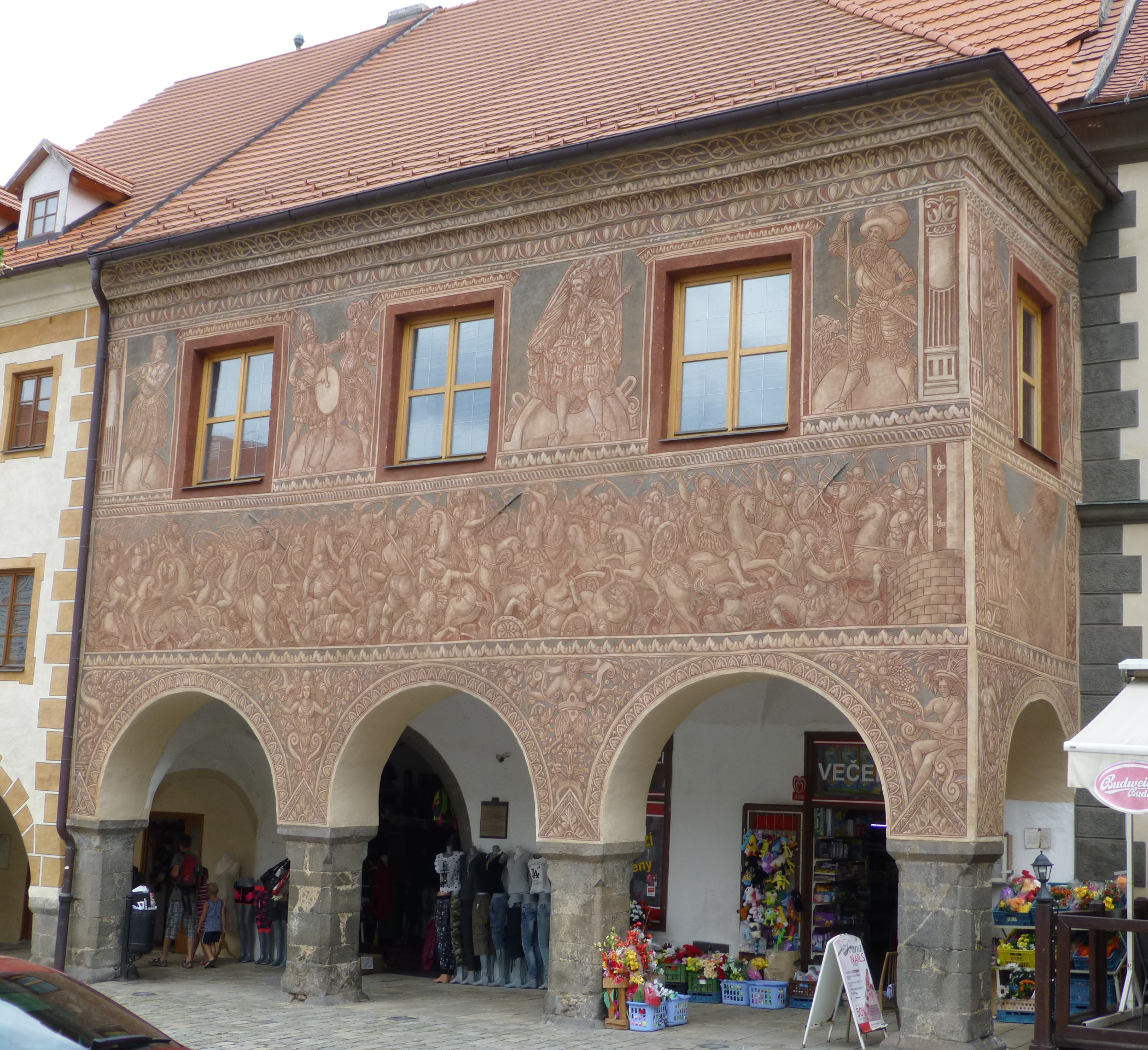 House Rumpal, Prachatice, Southern Bohemia.